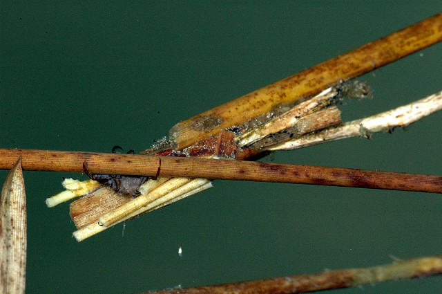 Picture taken in Commanster, Belgian High Ardennes . Species: Anabolia nervosa larva